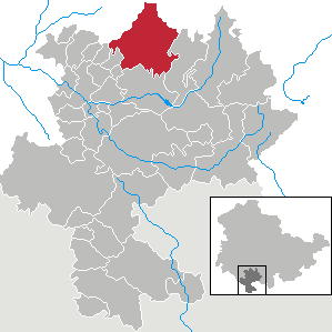 St.Kilian in Thuringia - district Hildburghausen